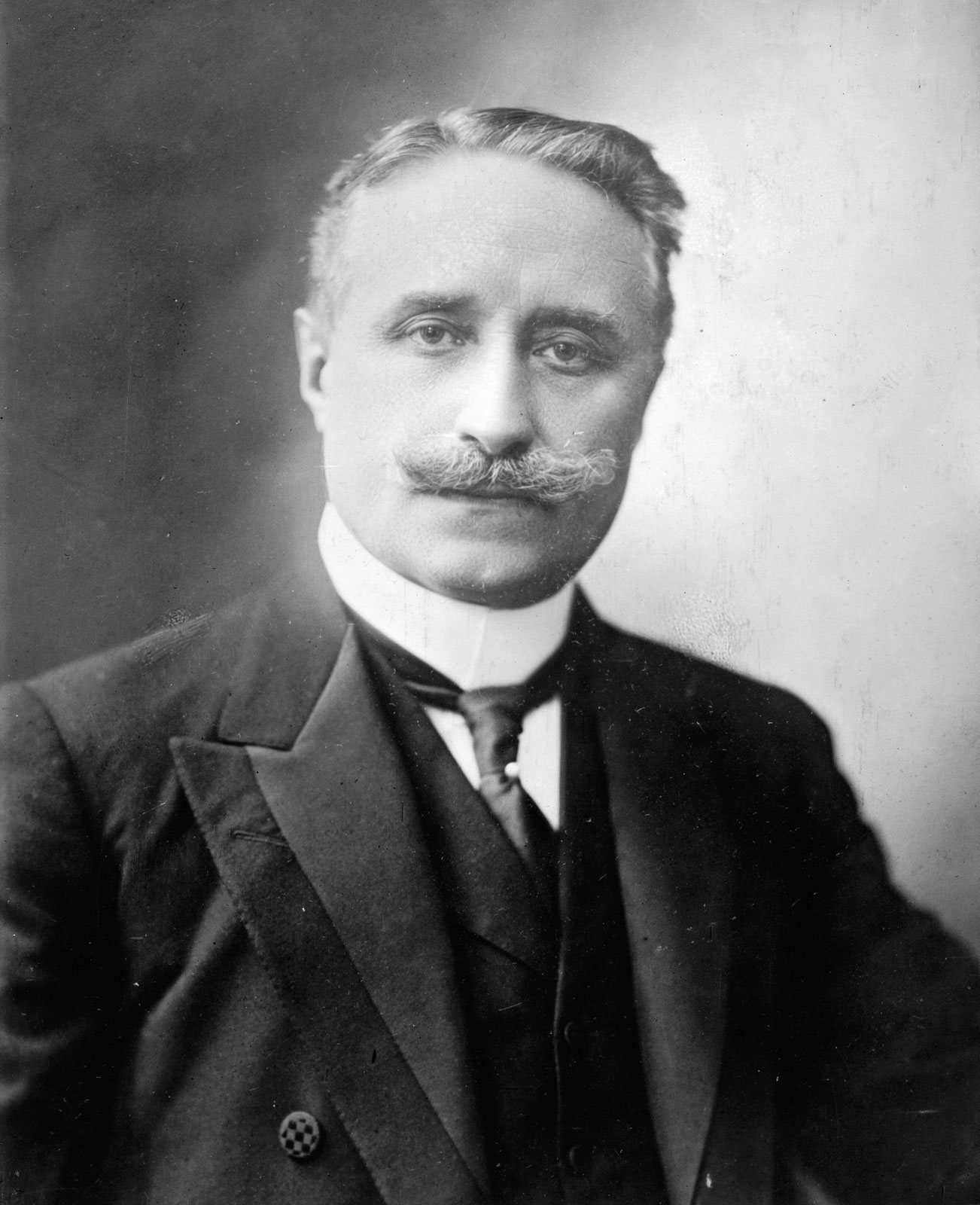 President of France Paul Deschanel (1855-1922)